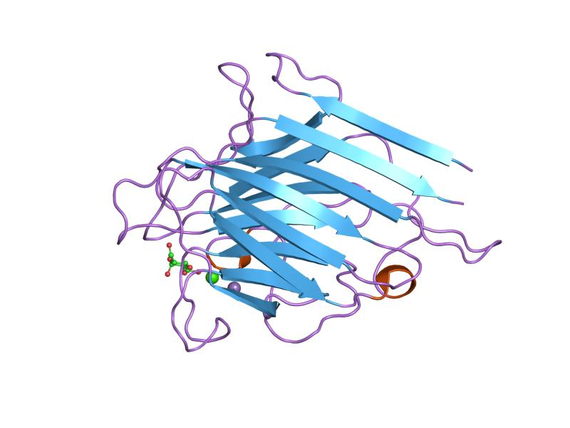 Cartoon representation of the molecular structure of protein registered with 1lem code.